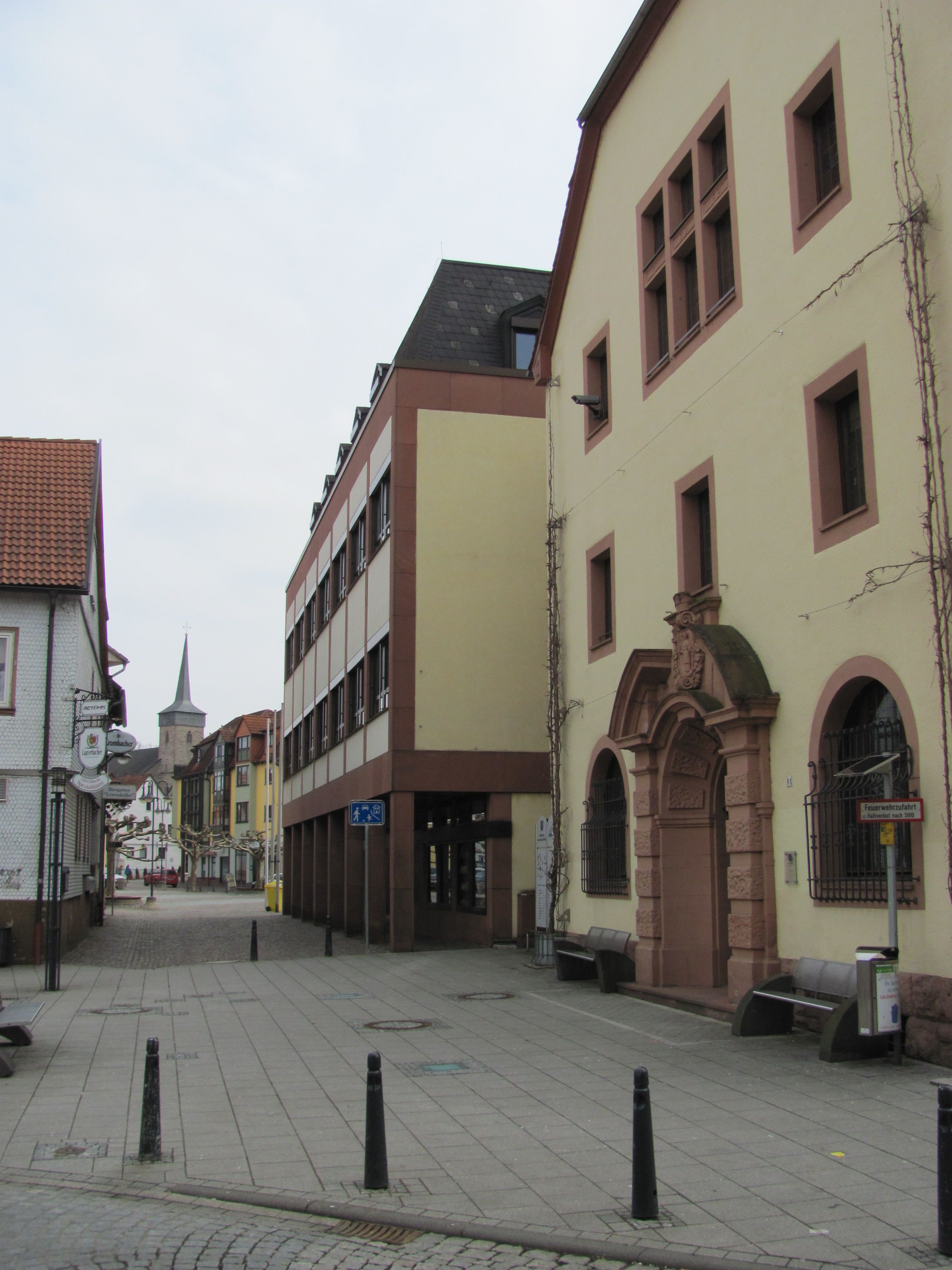 Town Hall, Schlüchtern, Germany